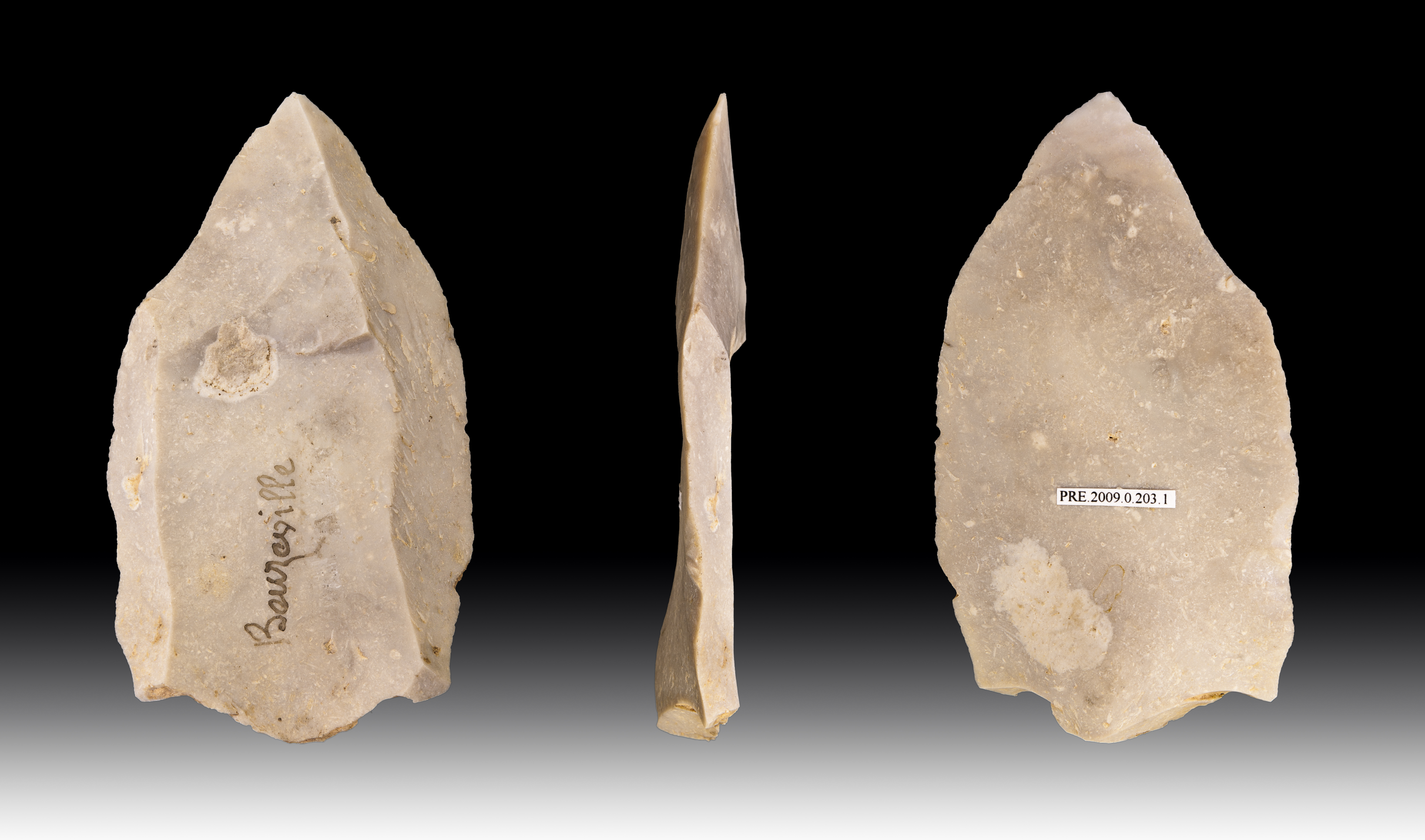 Different views of the same specimen.